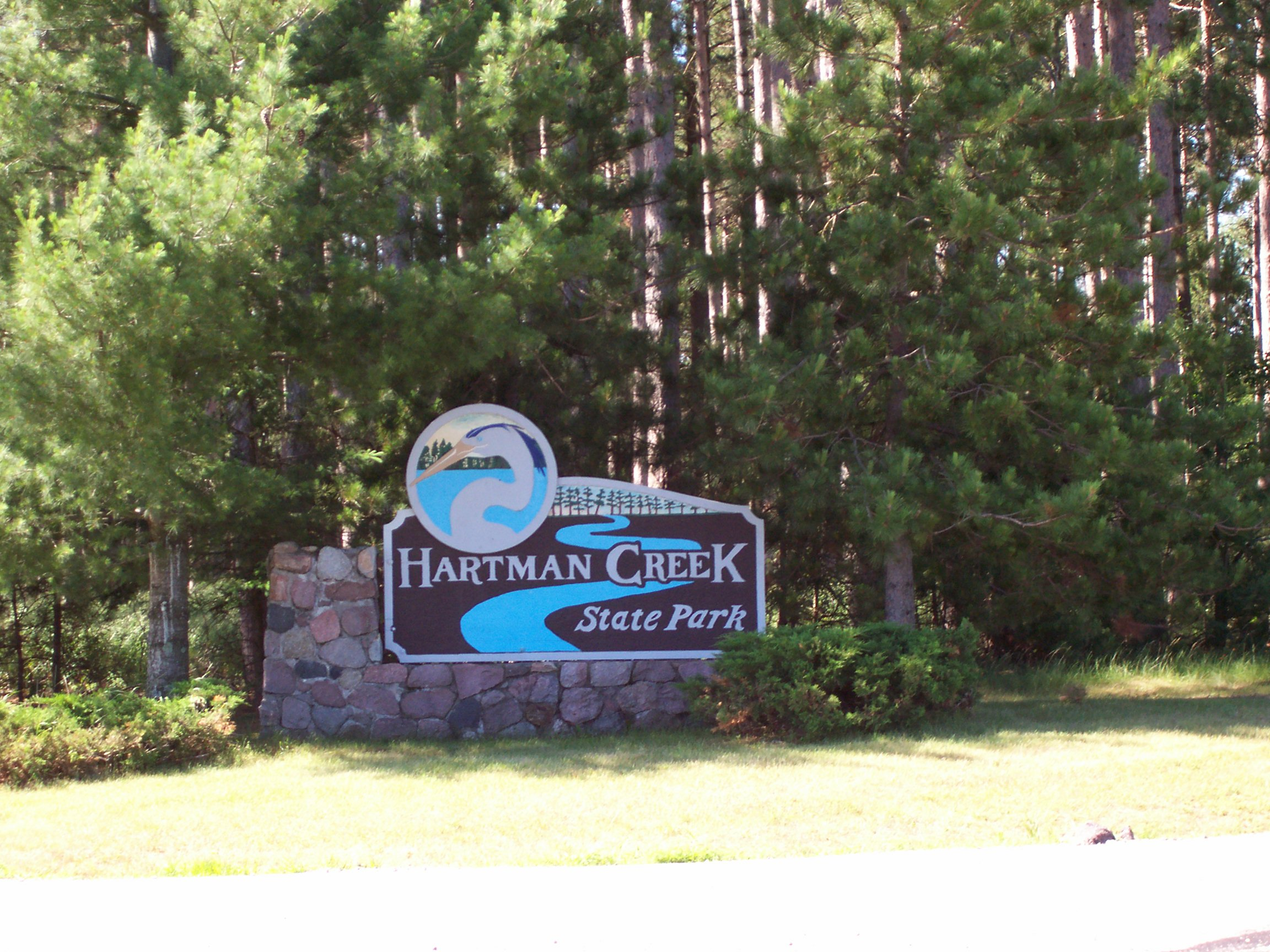 The welcome sign for Hartman Creek State Park near Waupaca, Wisconsin, USA.